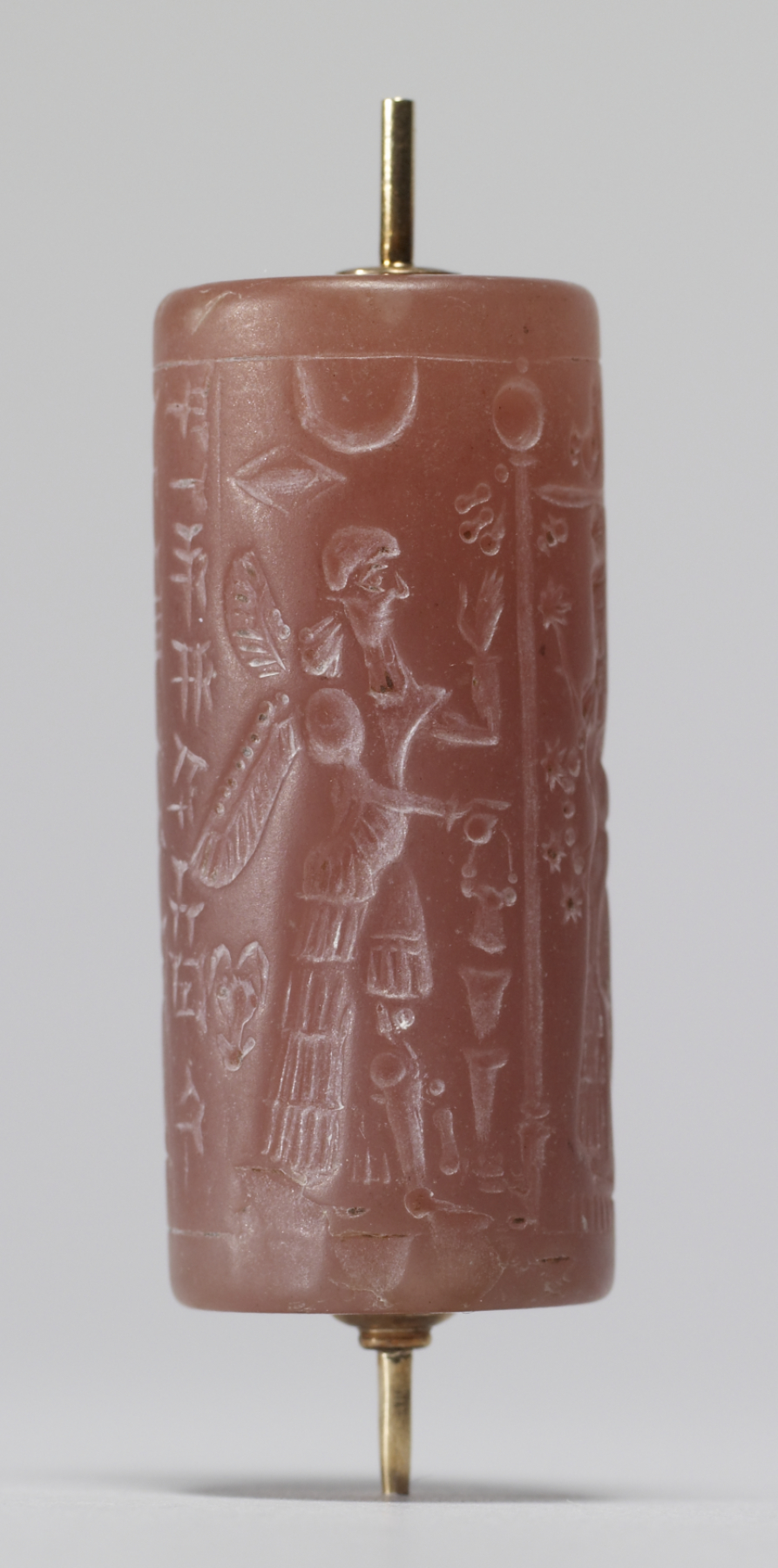 Under a canopy, a worshiper faces a deity- possibly Ishtar, goddess of fertility- on a raised platform. Two winged genii (protective deities) holding ceremonial buckets flank the central scene, and divine astral symbols appear above. A three-line inscription gives the name and titles of the owner: "[seal] of Nabu-nurka-lamur, superintendent of Ahu-shamshi, the palace herald." The finely drilled style of this seal dates it to the 9th or 8th century BC.